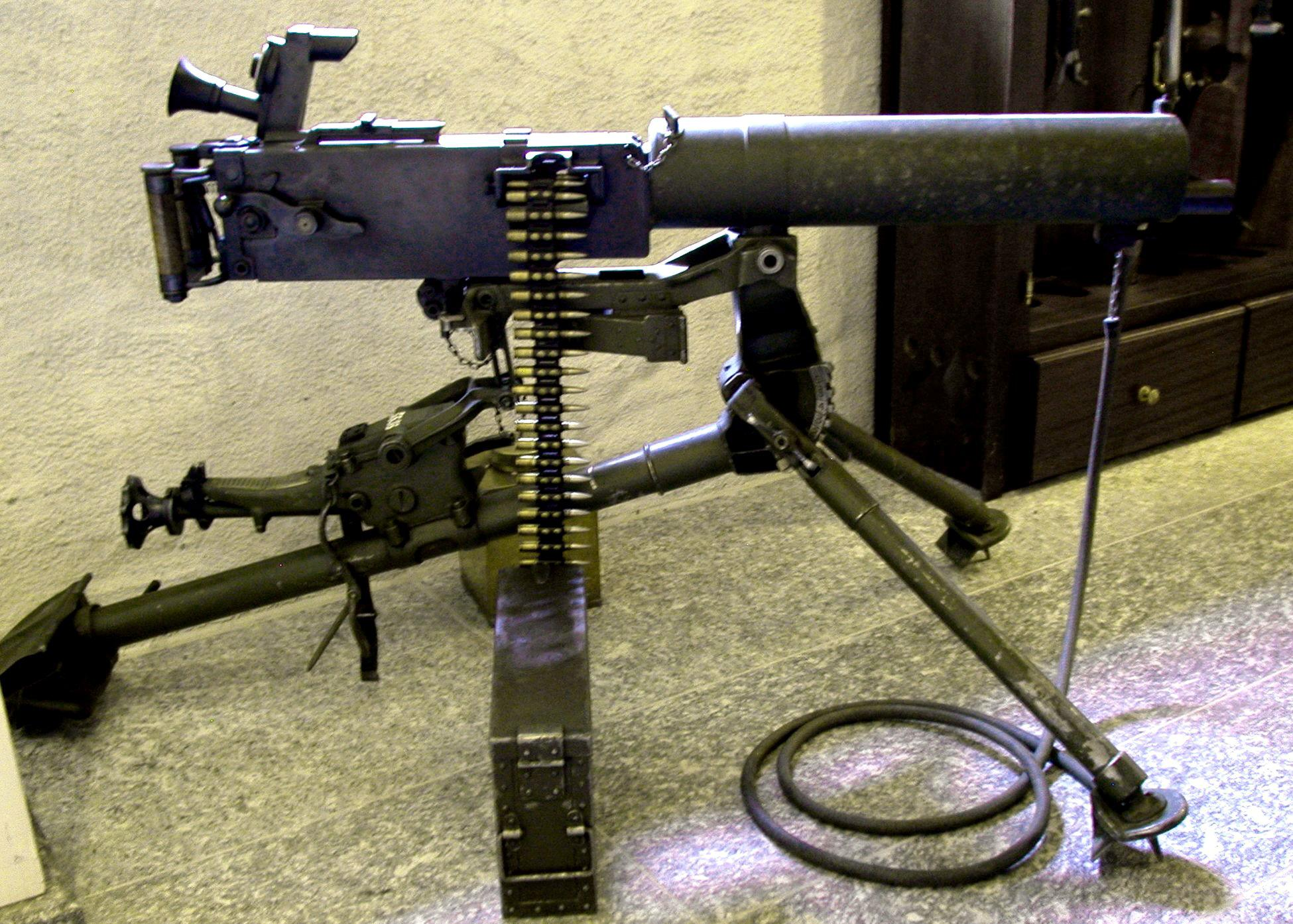 Swiss made Maxim Machine gun Model 1911